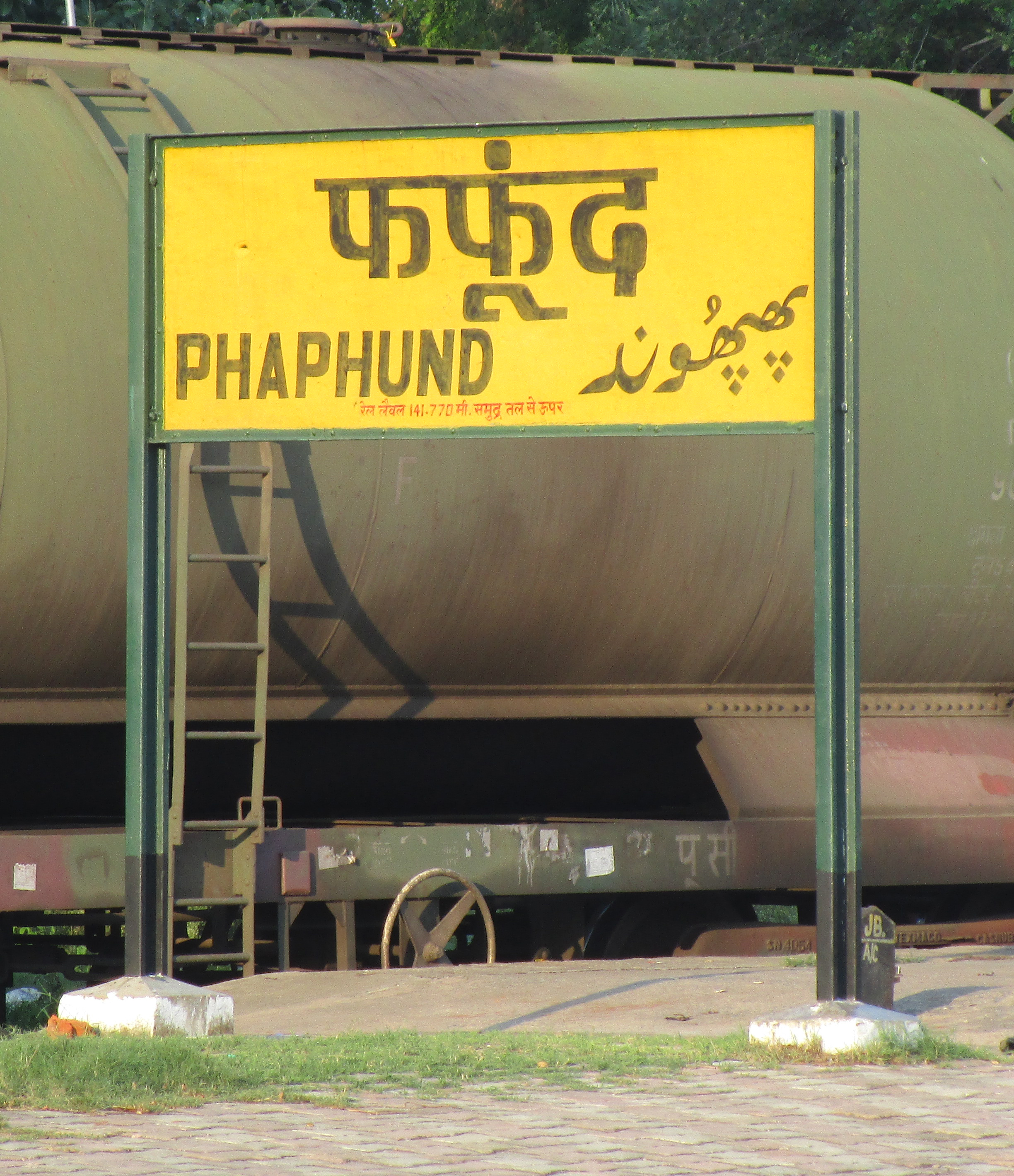 Phaphund Railway Station